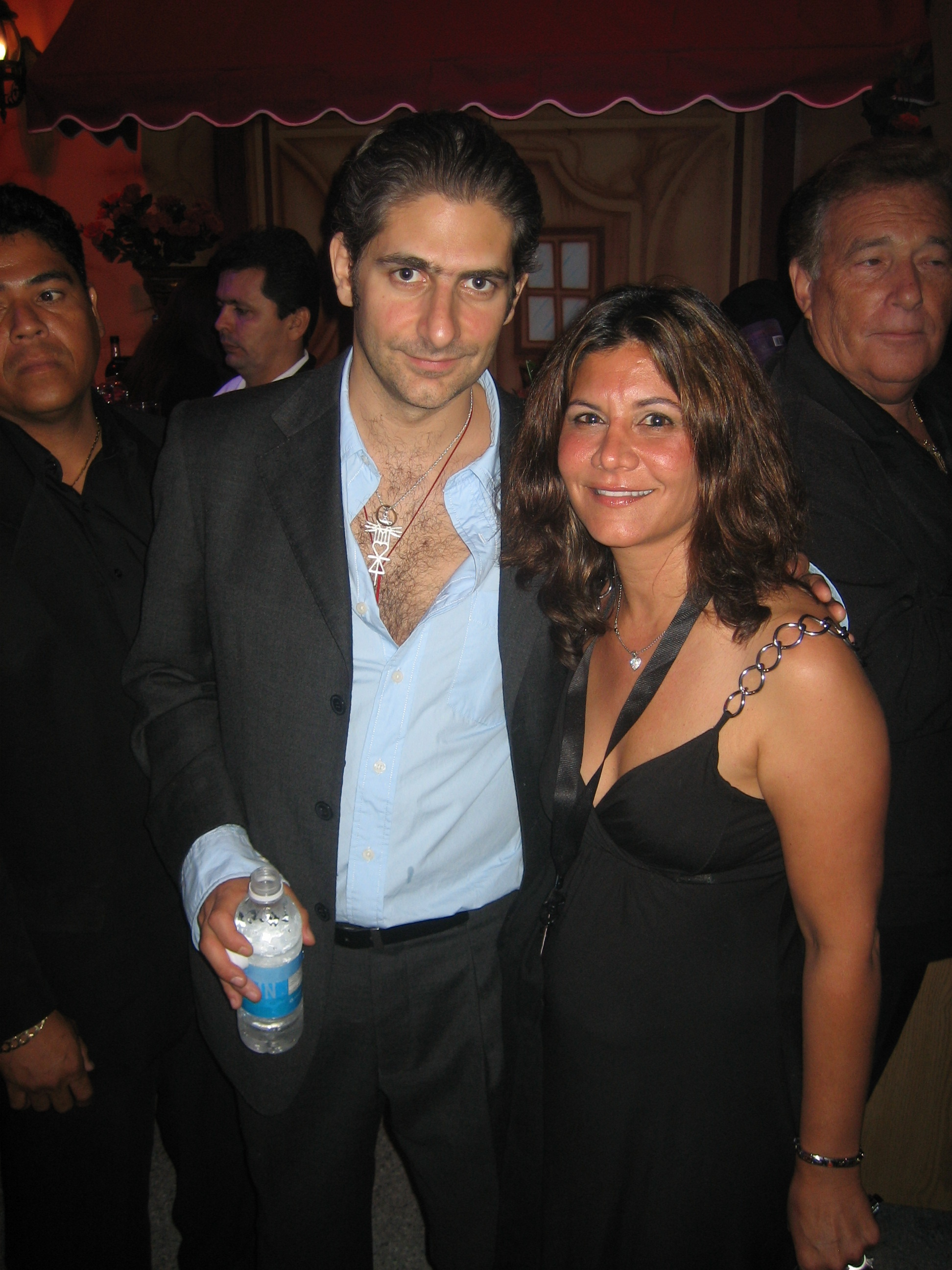 Donna with Christopher from the Sopranos....This is actor Michael Imperioli...